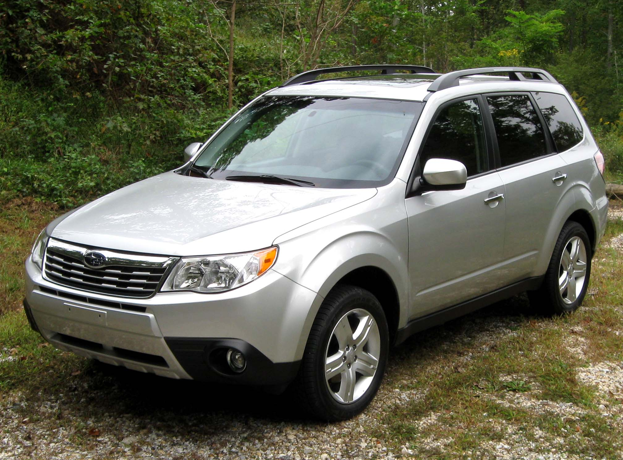 2010 Subaru Forester photographed in Croom, Maryland, USA.